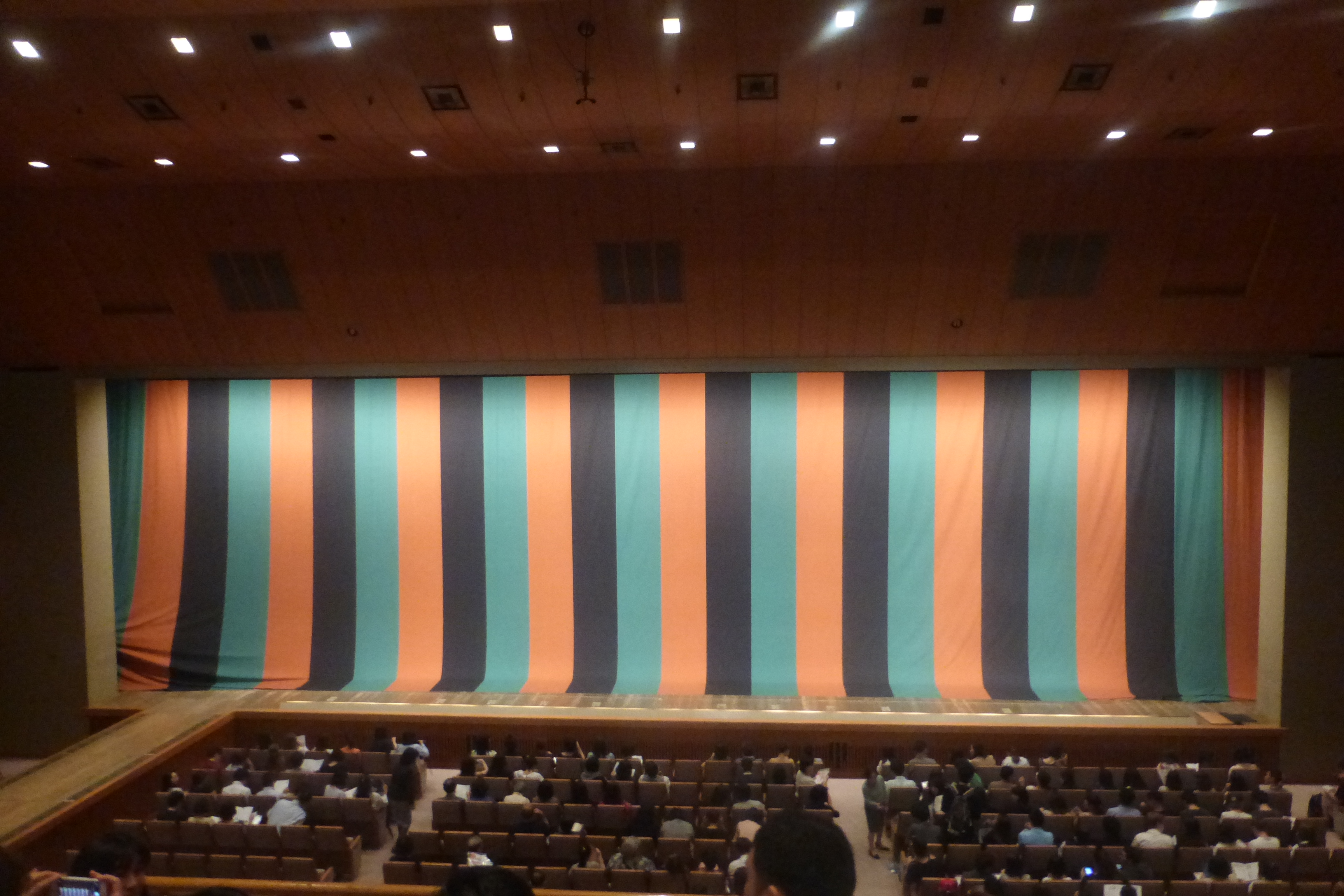 国立劇場の定式幕 (kabuki curtain [joshikimaku] of National Theatre of Japan)